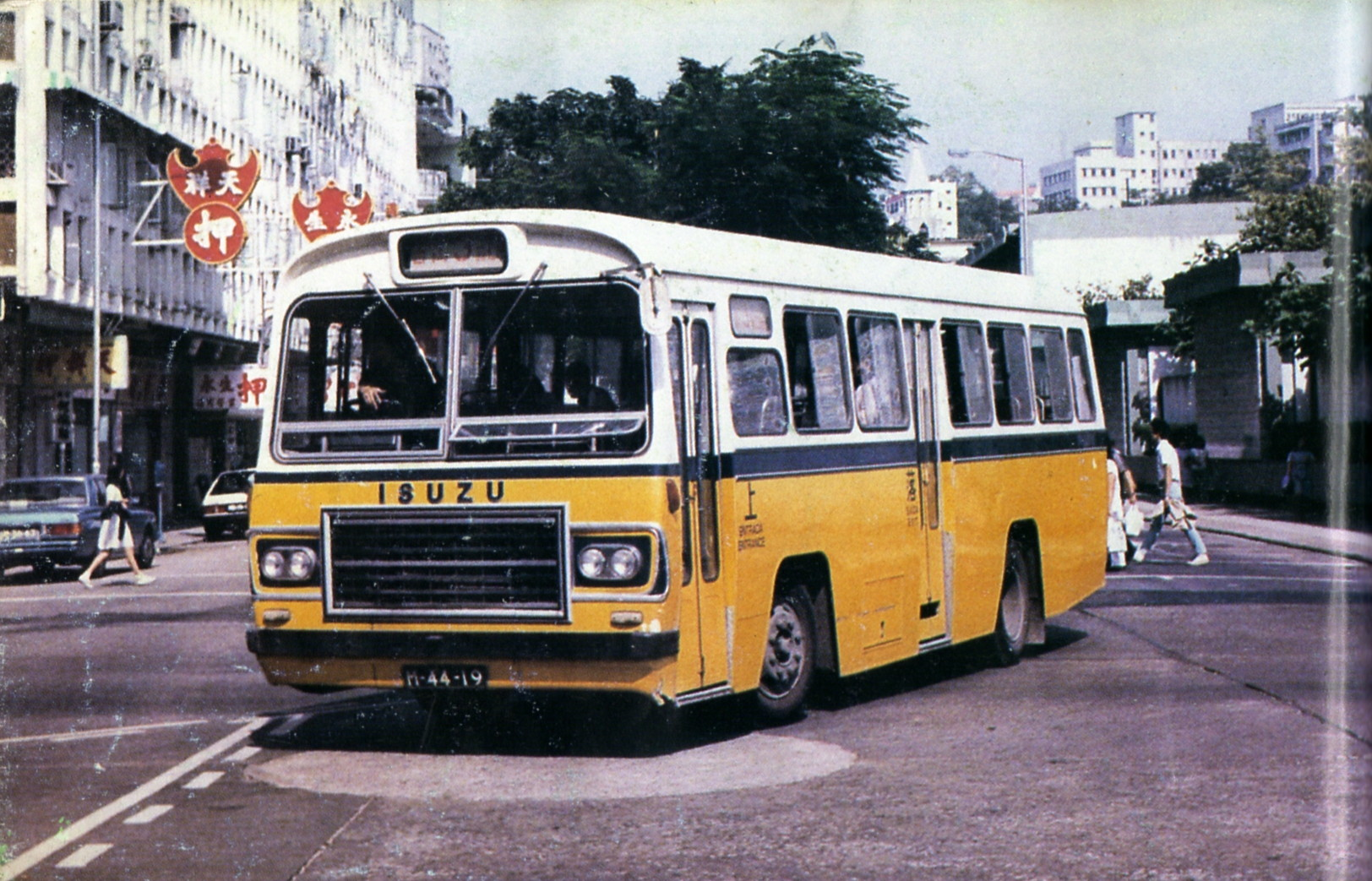 An Isuzu JCR460ZZ Bus of Fok Lei Bus Company in Macau in 1984